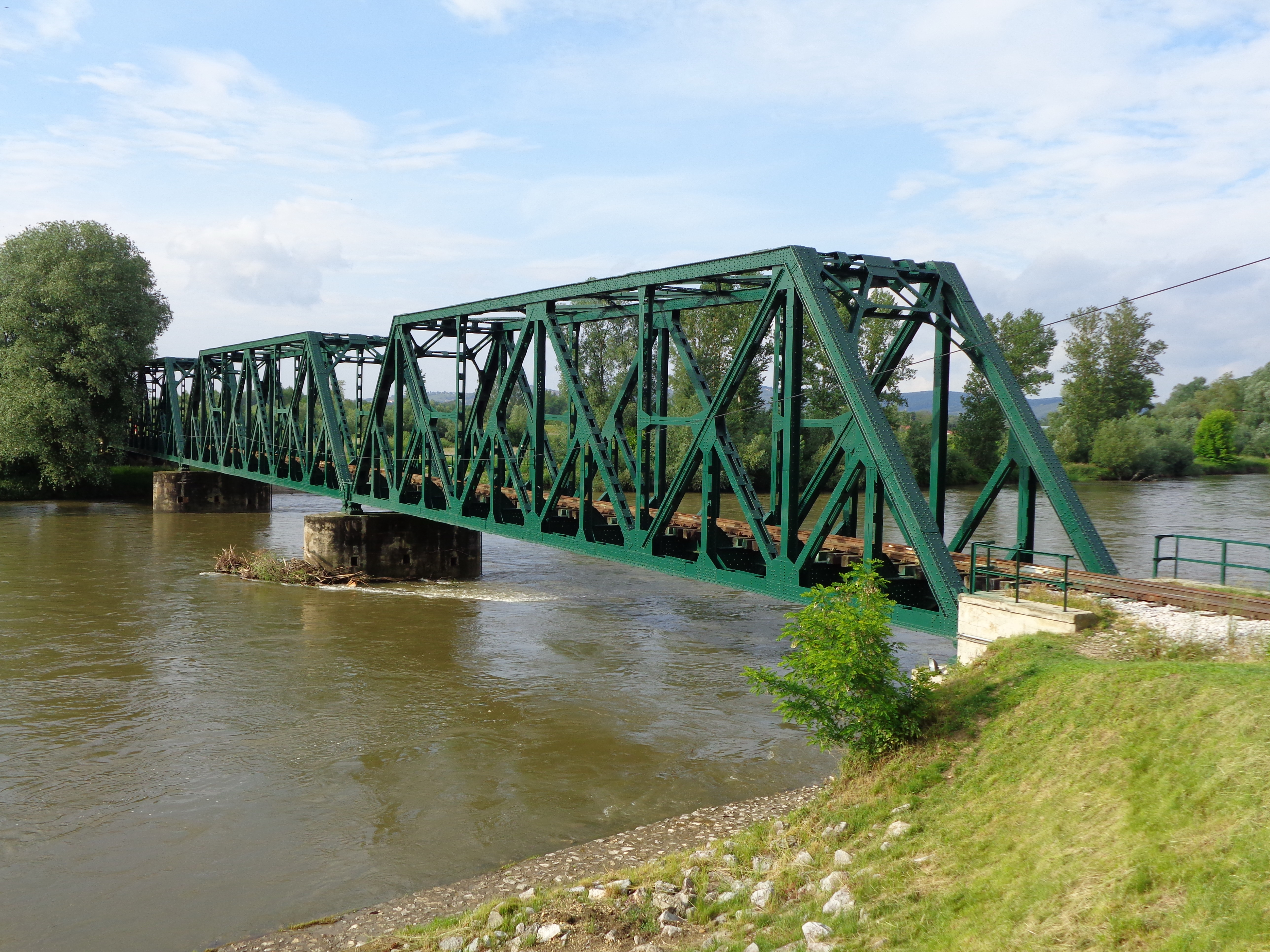 Railway bridge over the Mura river in Mursko Središće, Međimurje County, Croatia